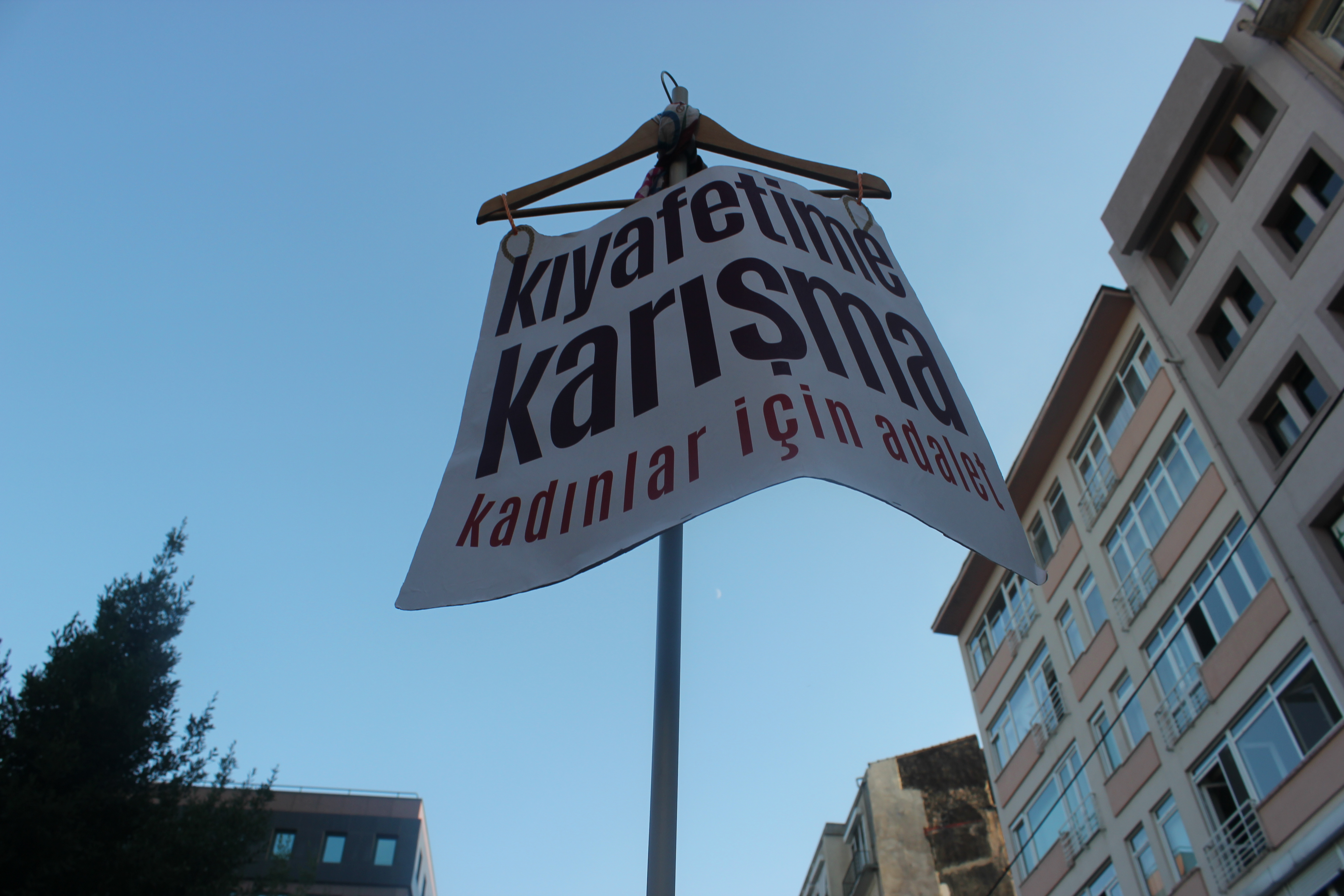 A poster from feminist protest "Kiyafetime karisma" in Turkey. Designed to emphasize freedom of dressing.